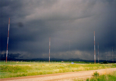 The antenna and support towers of the United States National Institute of Standards and Technology's radio station WWVB in Fort Collins, Colorado, USA. This station broadcasts timecode information to the Continental United States.